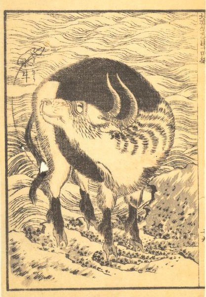 Suigyū (Water Buffalo) Measurements: 22.7 × 13.3 cm (sheet) Work Types: Print • Ehon (picture book)